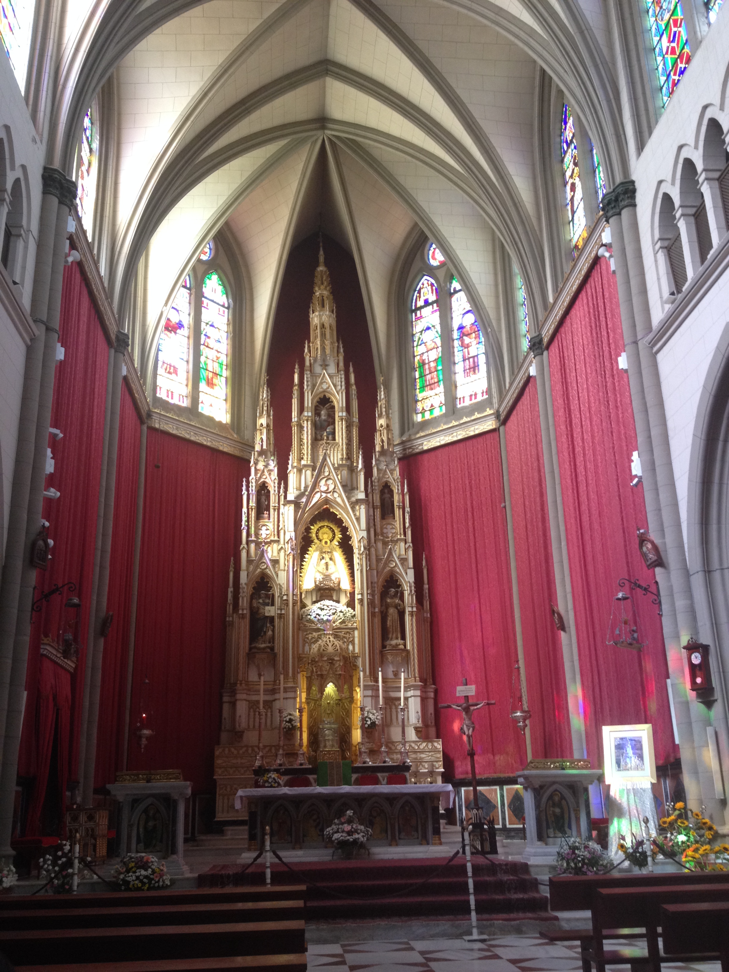 Altar of the Sanctuary of Our Lady of Regla, located in Chipiona, Andalusia, Spain